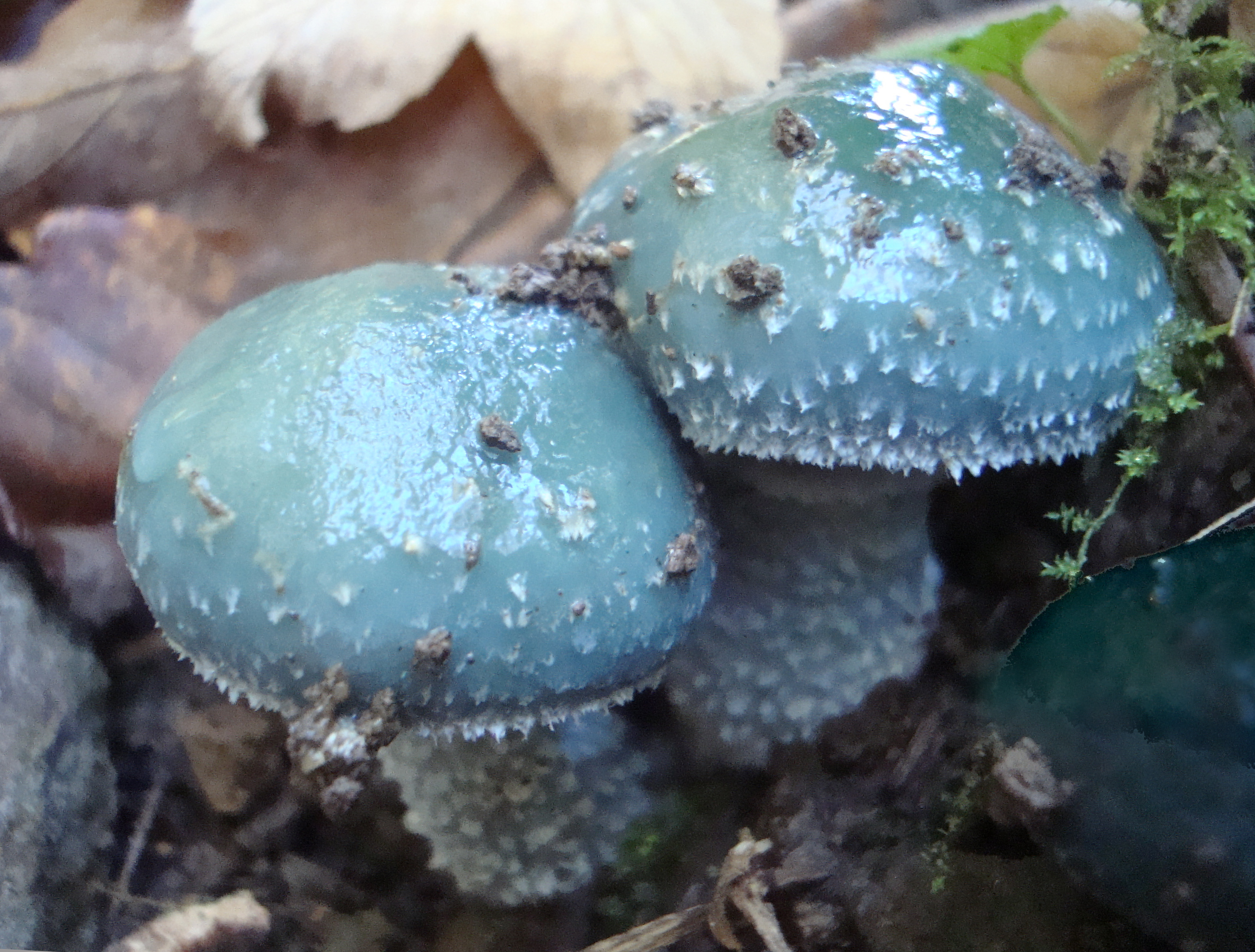 Fruitbodies of the agaric fungus Stropharia aeruginosa